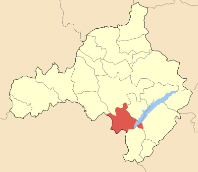 Locator map of Eanis municipality (Δήμος Εάνης) at Kozani perfecture, Greece.